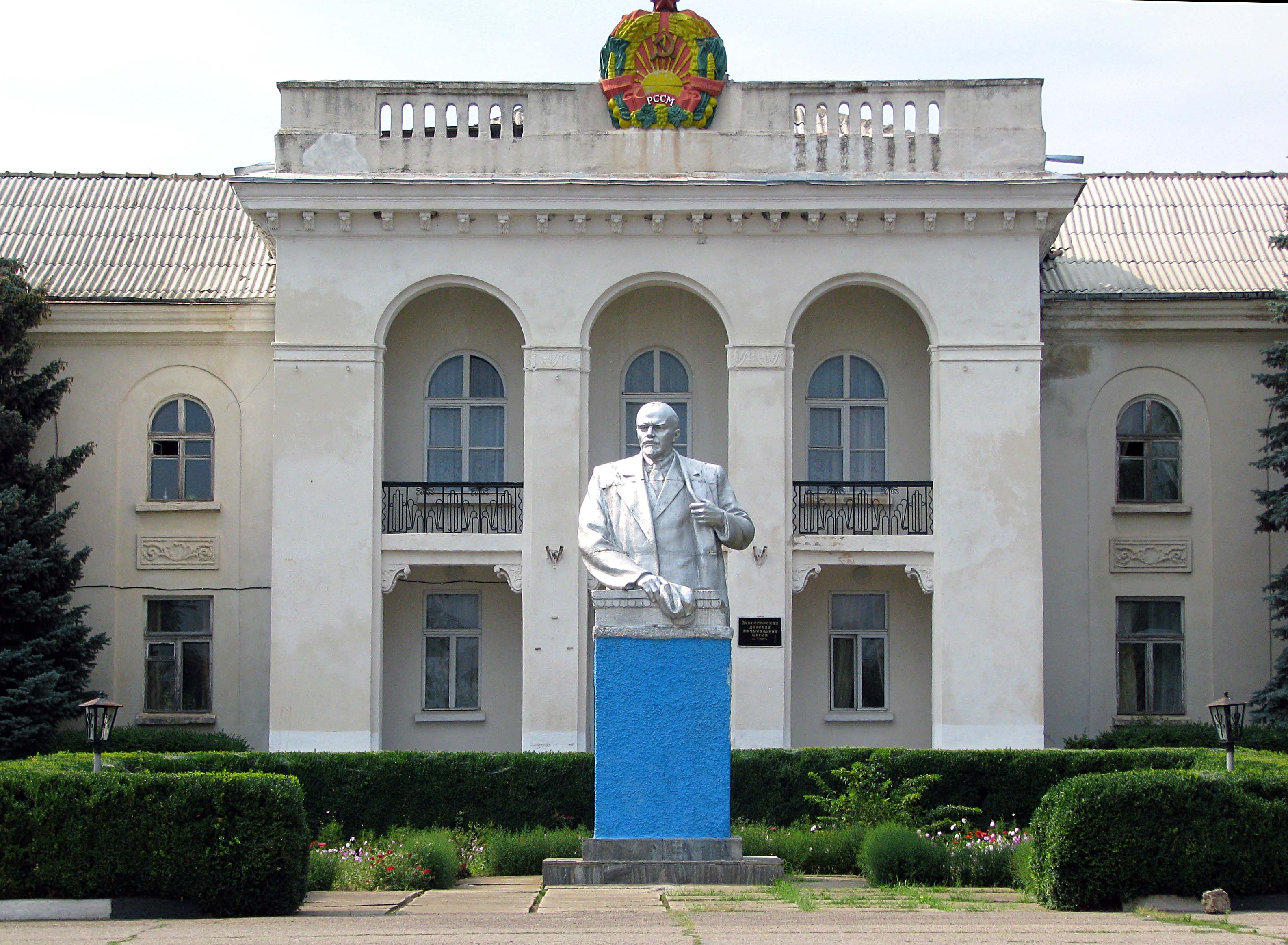 памятник Ленину